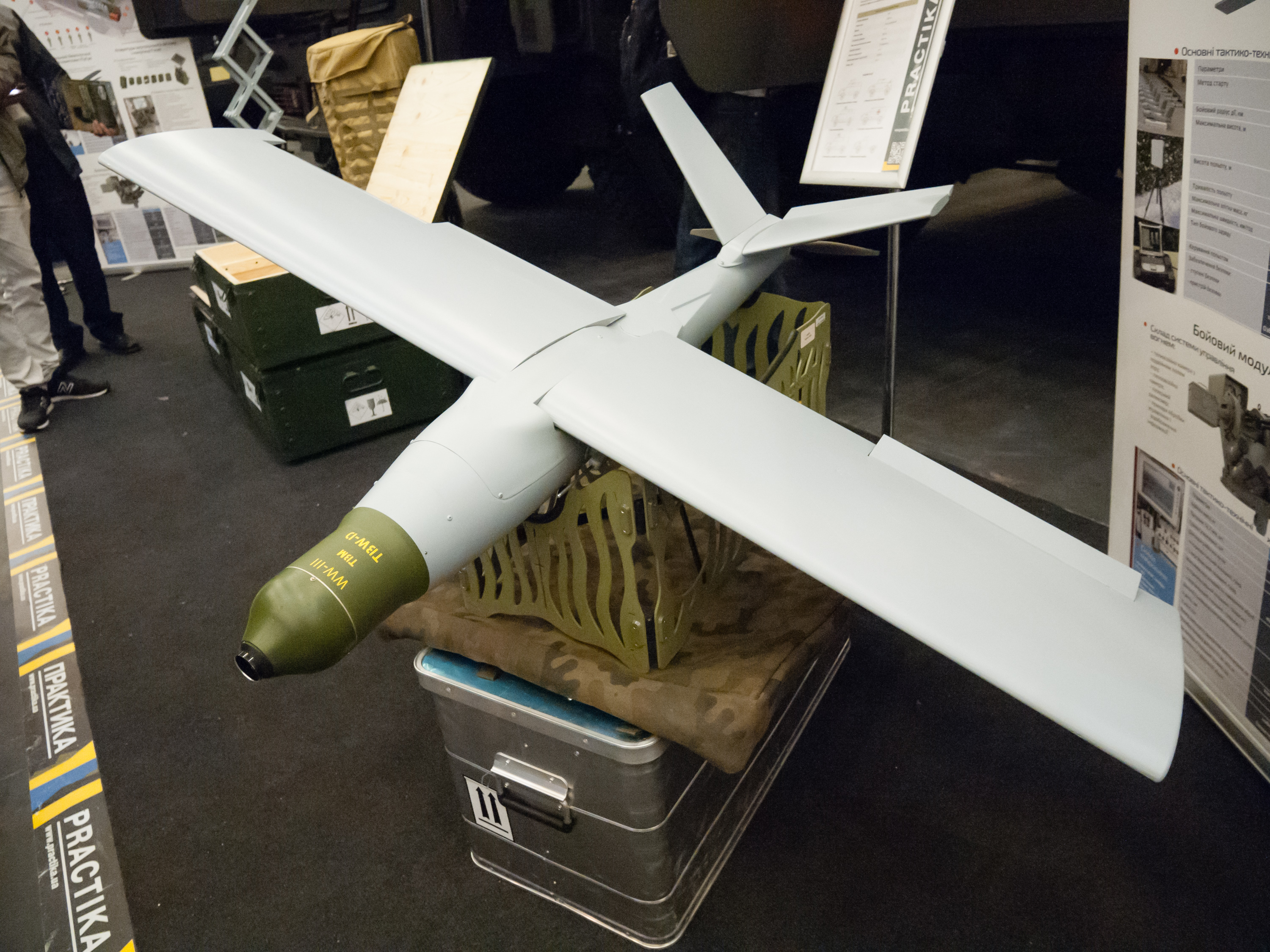 Warmate UAV, Zbroya ta Bezpeka military fair, Kyiv 2017